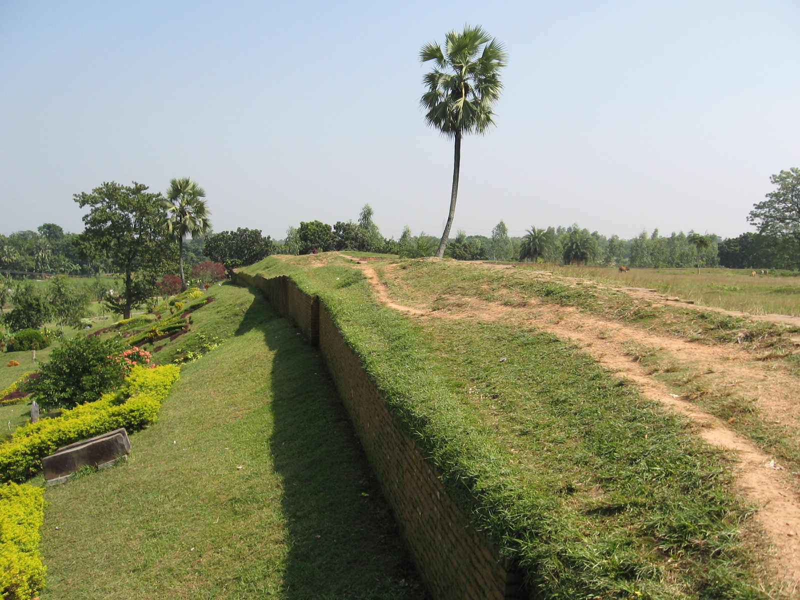 Portion of the ramparts at Mahasthangarh